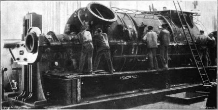 Turbines of the Austro-Hungarian battleship "Tegetthoff".